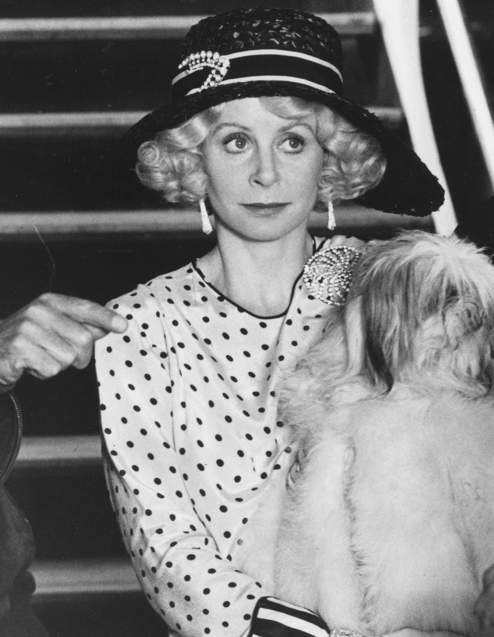 Christopher Miles directs his sister Sarah Miles in 1980